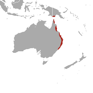 Red-legged Pademelon (Thylogale stigmatica) range